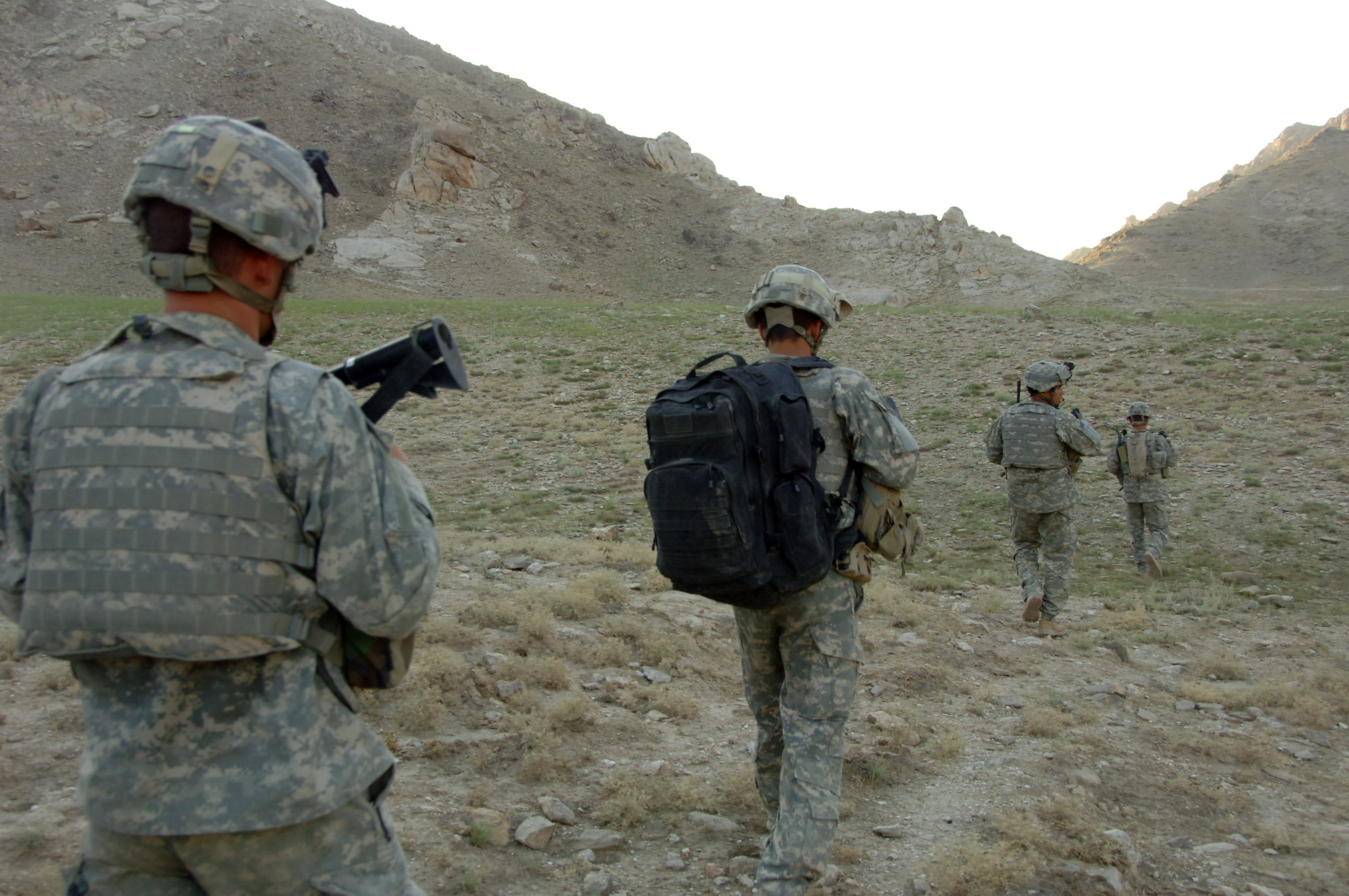 Soldiers of F Company, 2nd Battalion, 82nd Aviation Brigade (Long Range Surveillance Detachment), move across the terrain during patrol near the village of Bodro, Afghanistan on Aug 17.